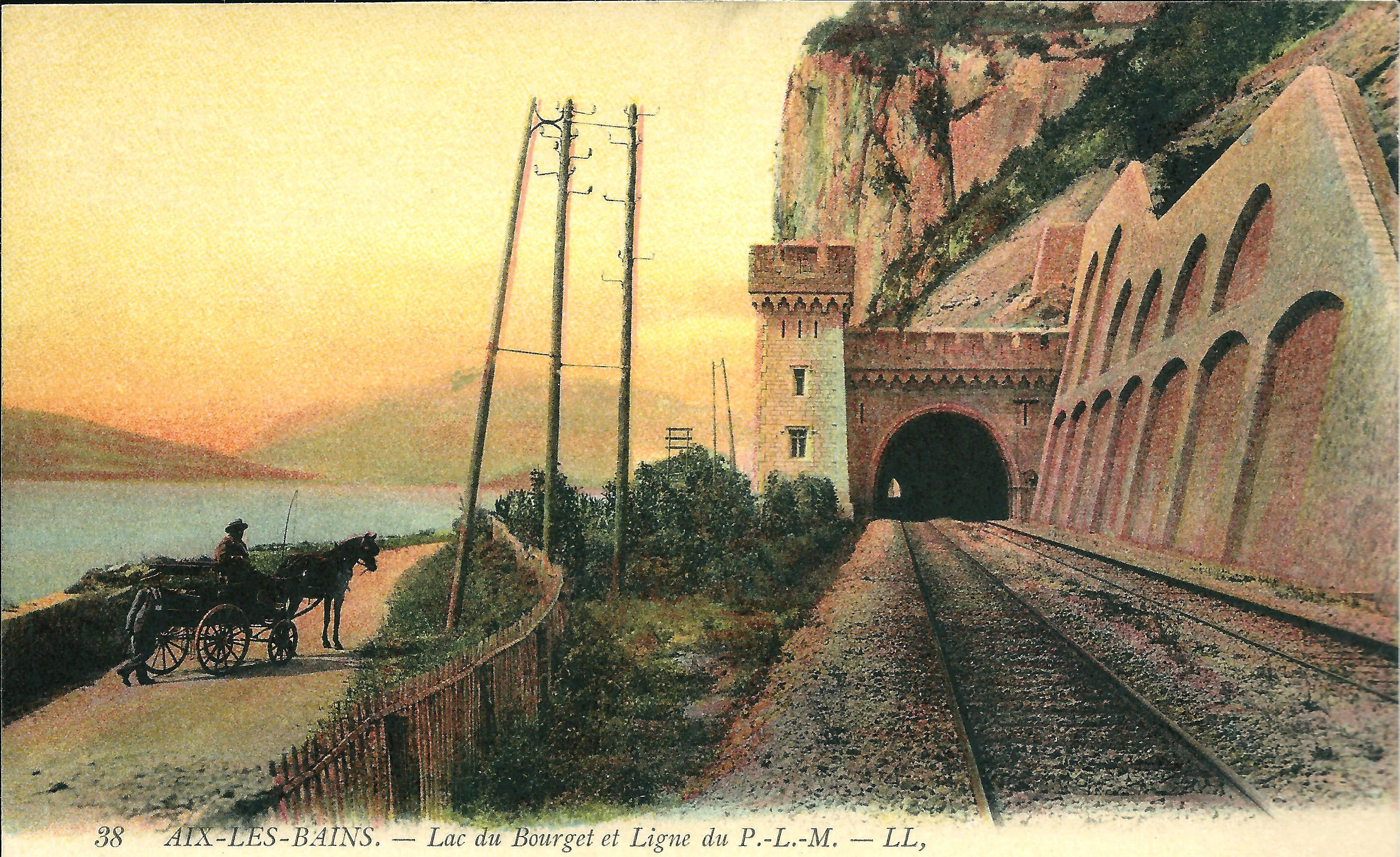 Postcard of the PLM railway line between Aix-les-Bains and the river Rhône all along the lac du Bourget lake, passing into the tunnel du Grand Rocher, in Saint-Germain-la-Chambotte (Savoie).